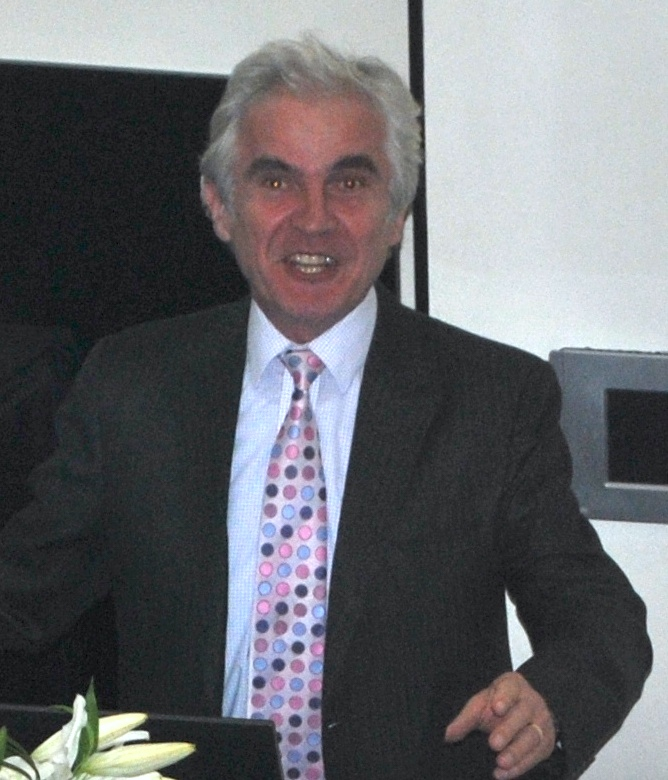 Prof Tom Collins, former president of RCSI Bahrain giving a speech